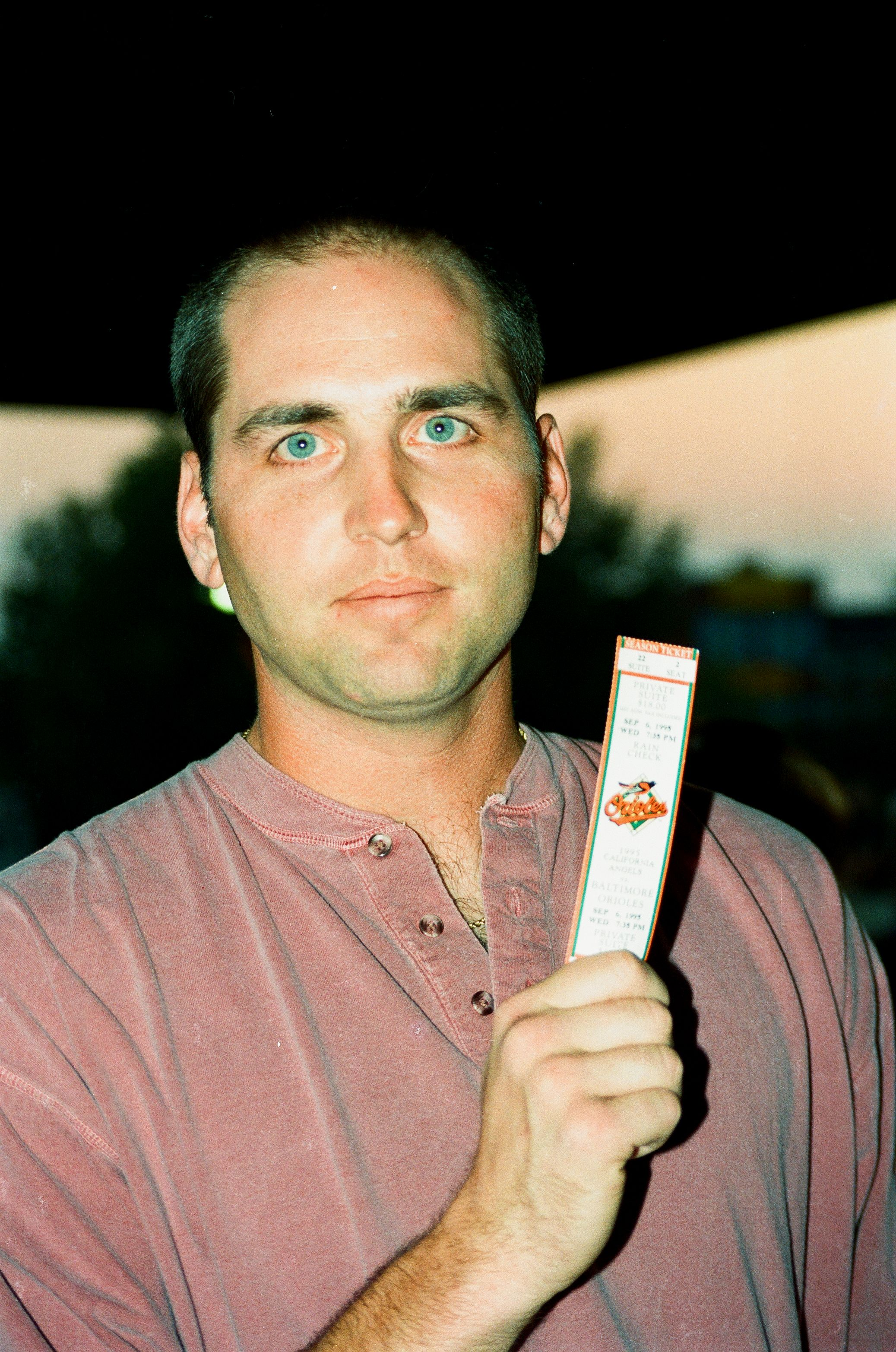 Billy Ripken holds the ticket to see his brother break his record. From Baltimore M.D. Camden Yards Sept 6, 1995